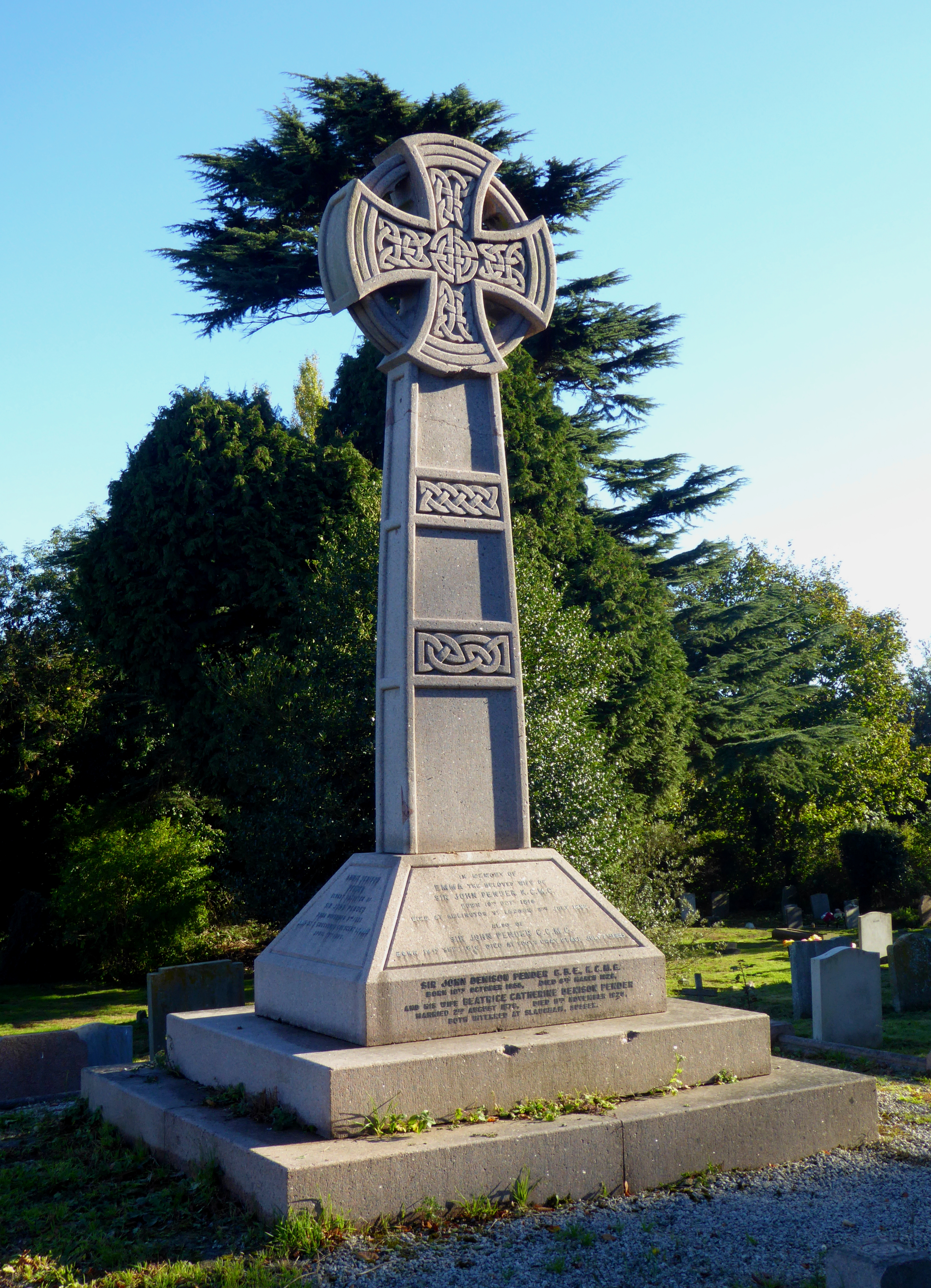 The funerary memorial to John Pender in the Churchuard of All Saints, Foots Cray.